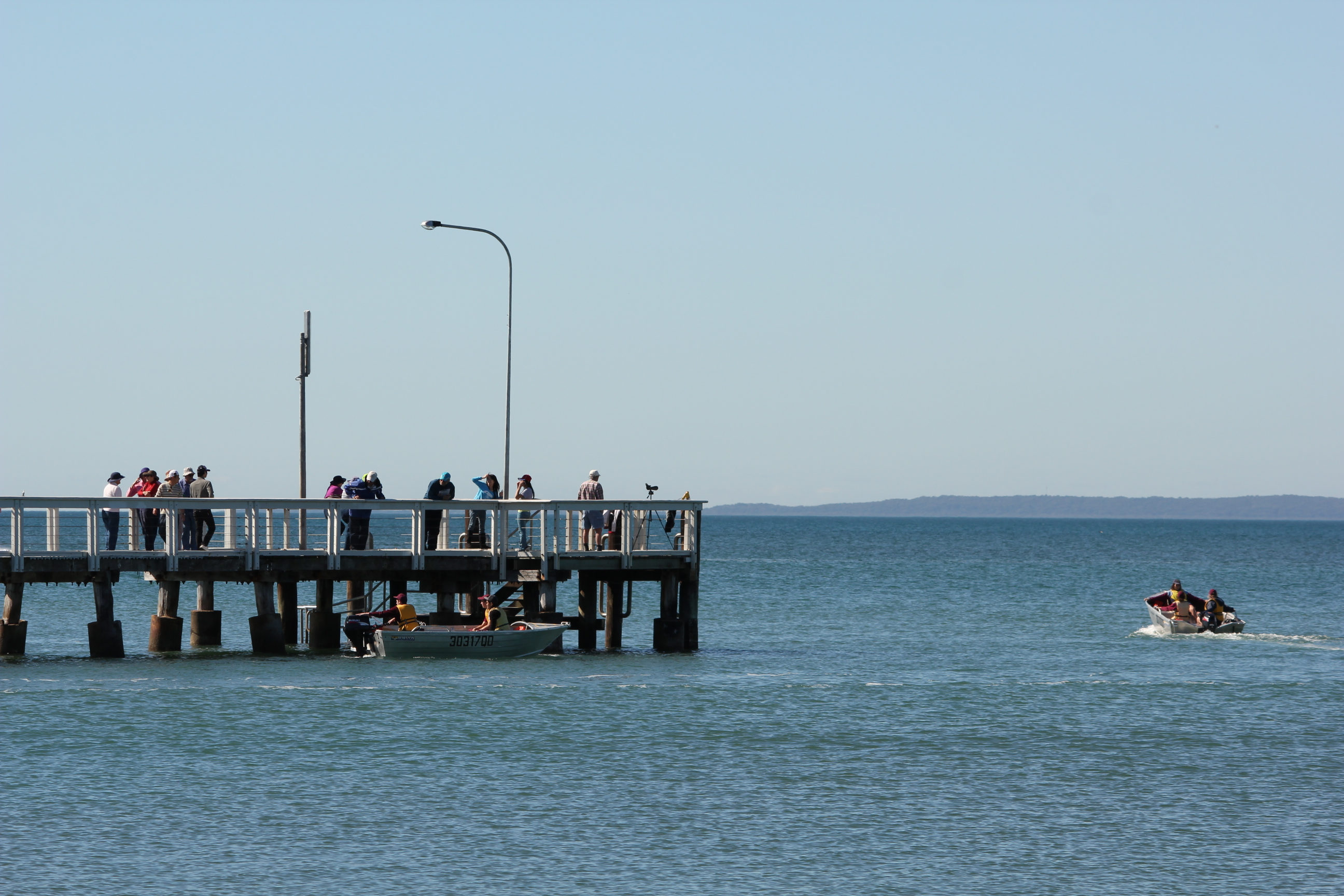 The jetty on the eastern side of Wellington Point, Queensland.